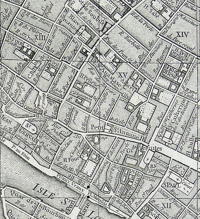 Vaugondy's map of Paris (Saint-Gervais district) - 1760